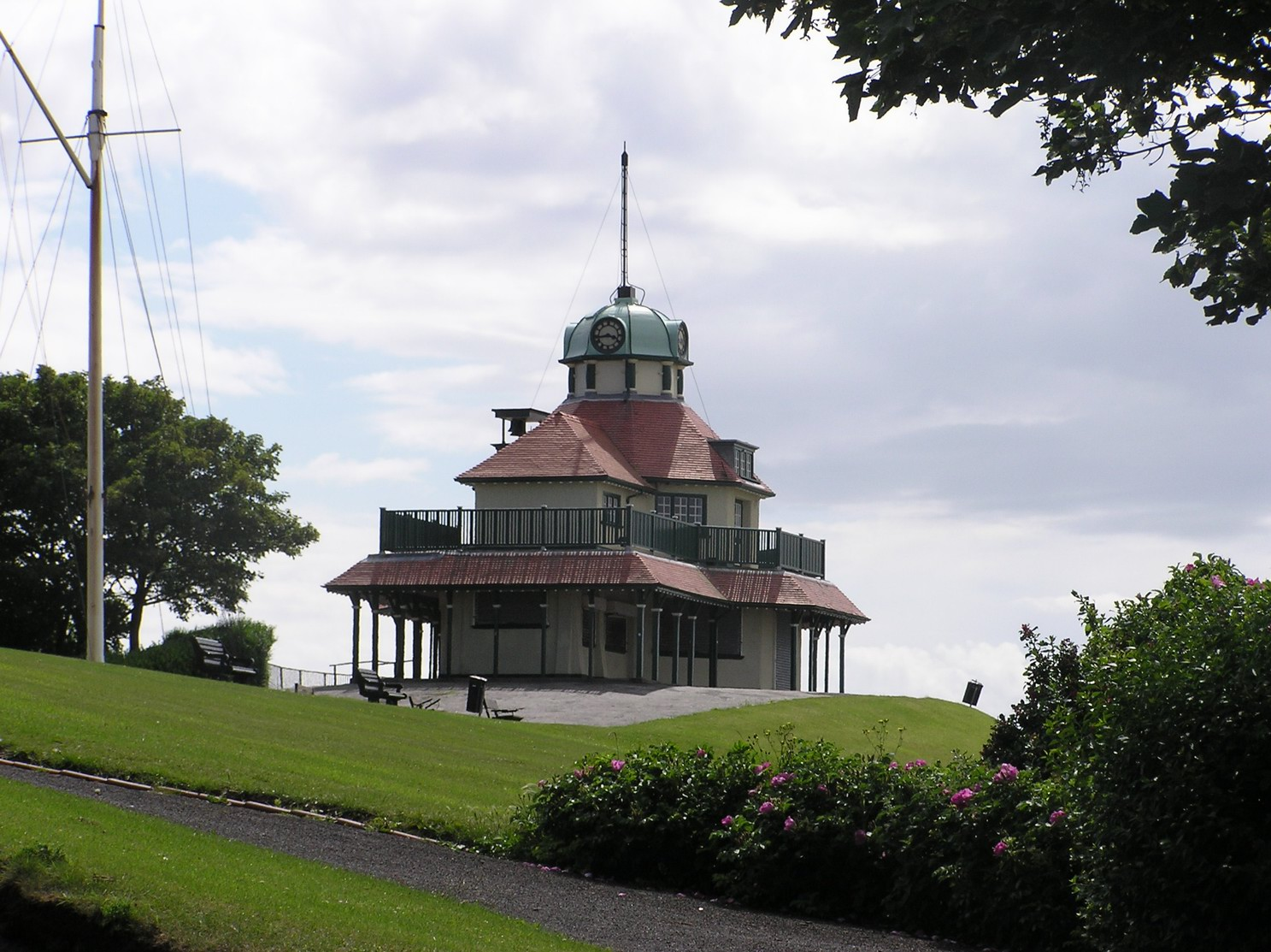 Fleetwood - The Mount June 2004